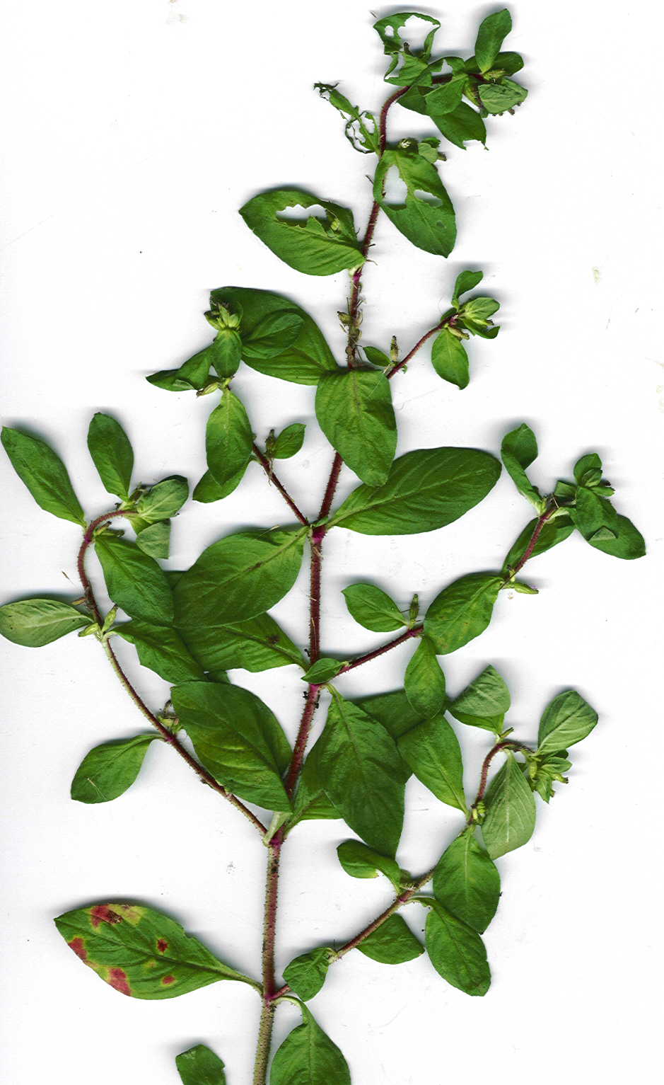 Cuphea carthagenensis (plant). Location: Maui, Hana Hwy